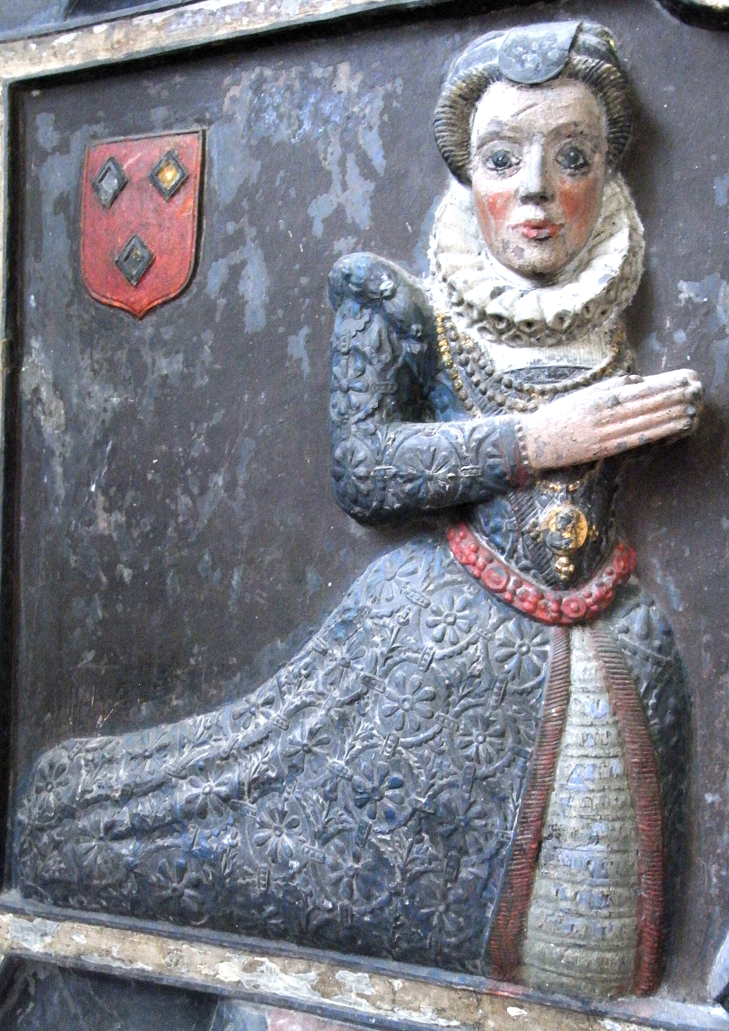 Effigy of Blanche Killigrew (d.1595) on monument to her husband John Wrey (d.1597) of Trebeigh, St Ive, Cornwall. The monument was moved from St Ive Church to its present position against the east wall of the nort transept of St Peter's Church, Tawstock, Devon, in 1924 by Sir Philip Bourchier Sherard Wrey, 12th Baronet (1858-1936), of Tawstock Court.(Pevsner, Nikolaus & Cherry, Bridget, The Buildings of England: Devon, London, 2004, p.790)